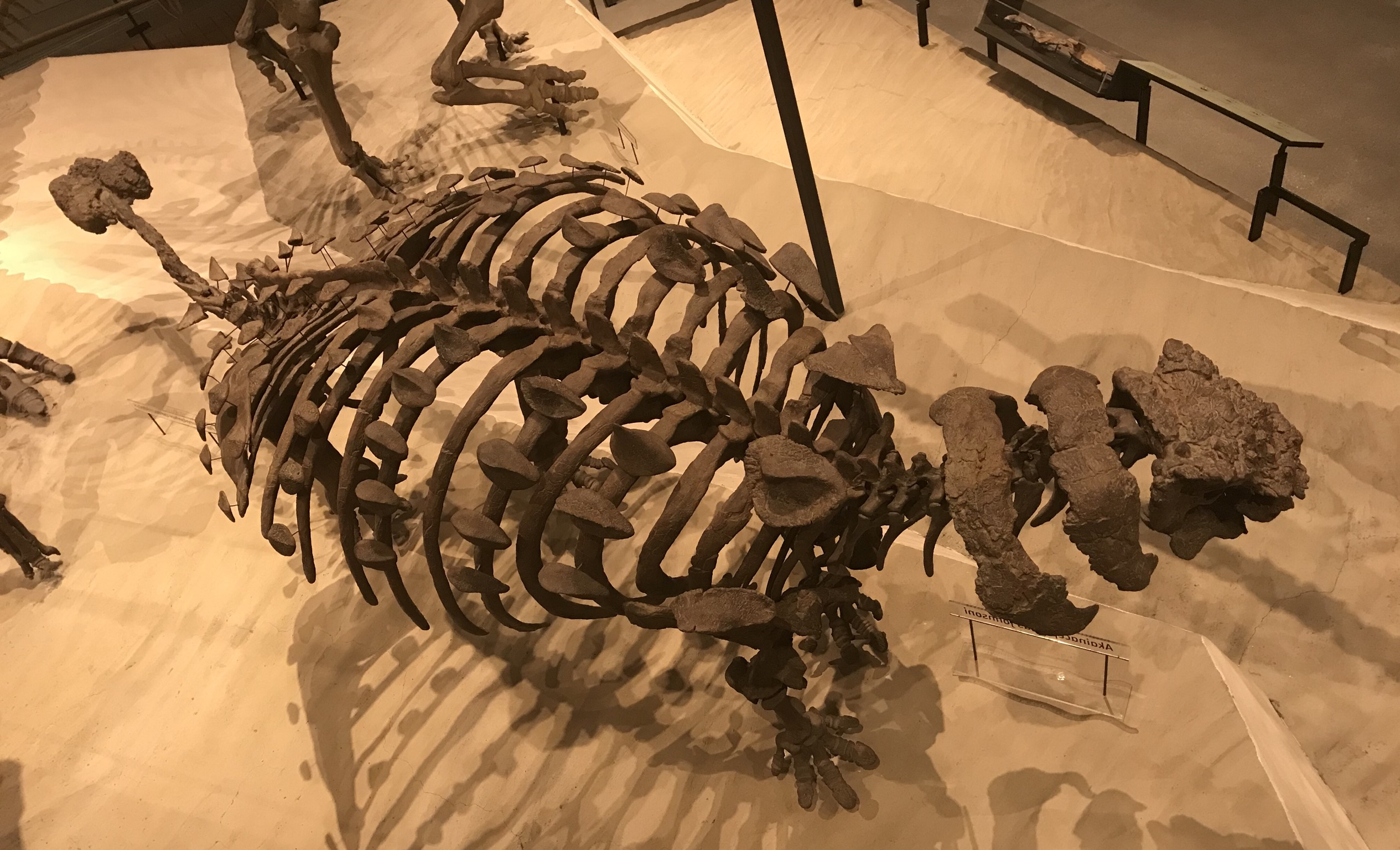 Dinosaur.